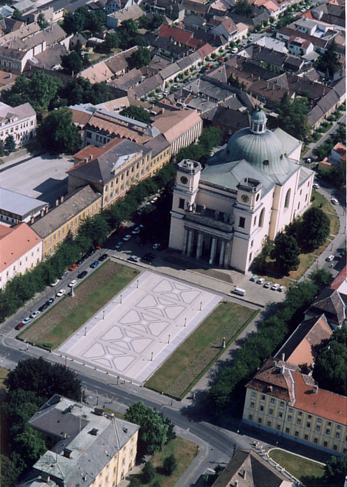 Grey Friars Temple, Vác - Hungary - Europe